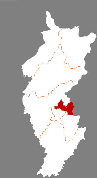 Location of Erdaojiang district in Tonghua City, China